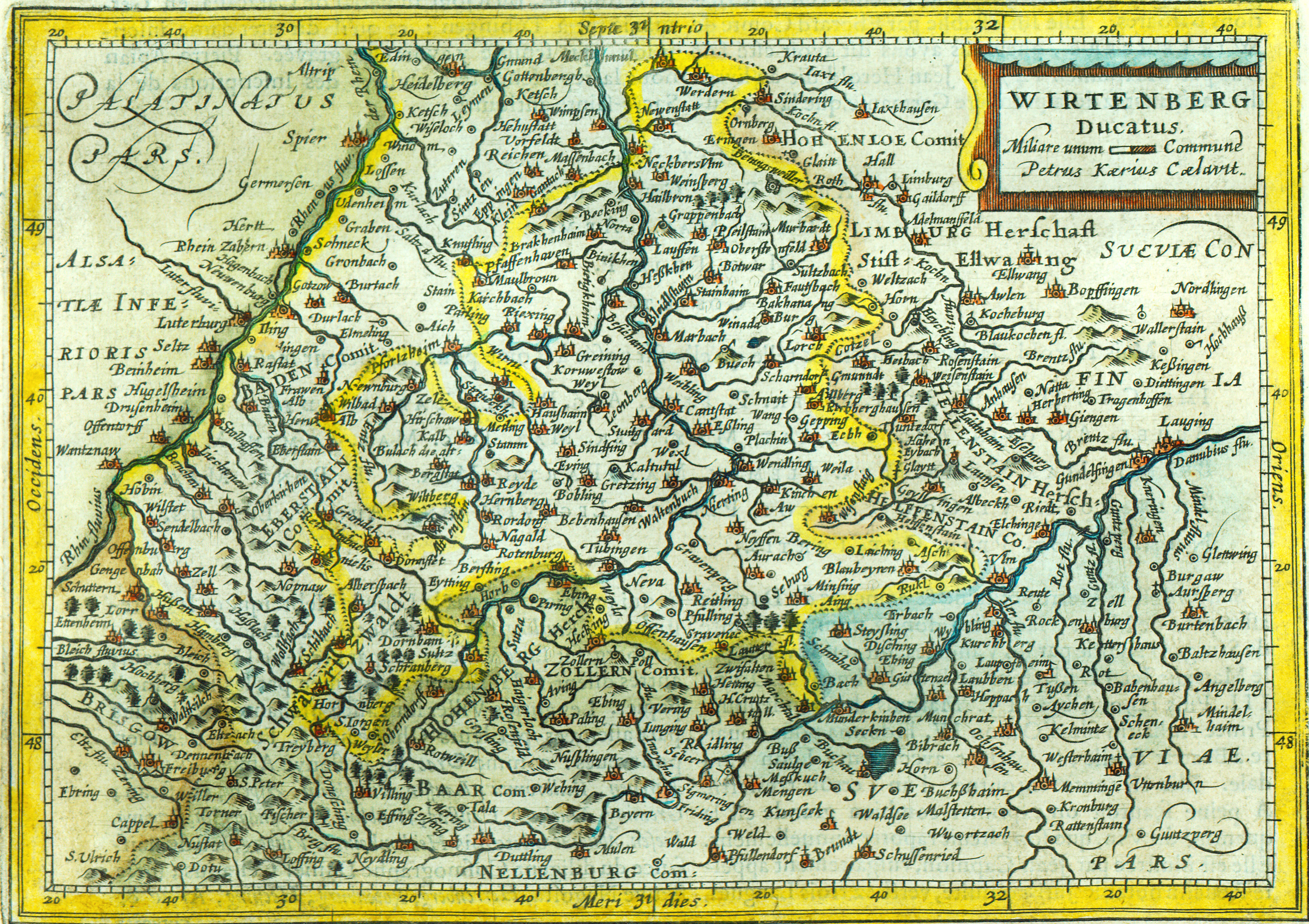 Topographisches Einzelblatt des Herzogtums Württemberg von circa 1619 (Topographical single sheet map of the duchy Württemberg in southern Germany from circa 1619 A.D.)